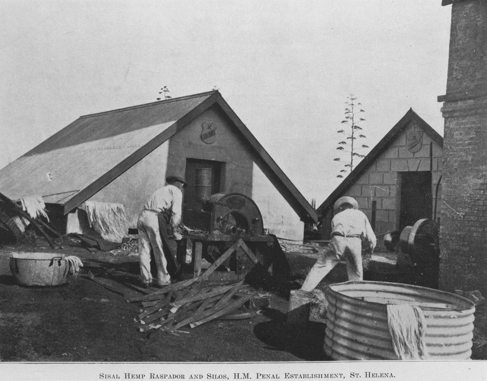 Prisoners using a sisal hemp raspador on St. Helena Island, 1911 After the closing down of the sugar mill in 1899 use was then made of the area for turning the raw flax into long soft fibres ready for weaving into rope. (Description supplied with photograph.).